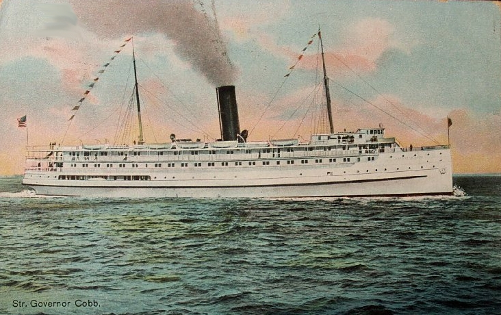 SS Governor Cobb, from a 1906 postcard.